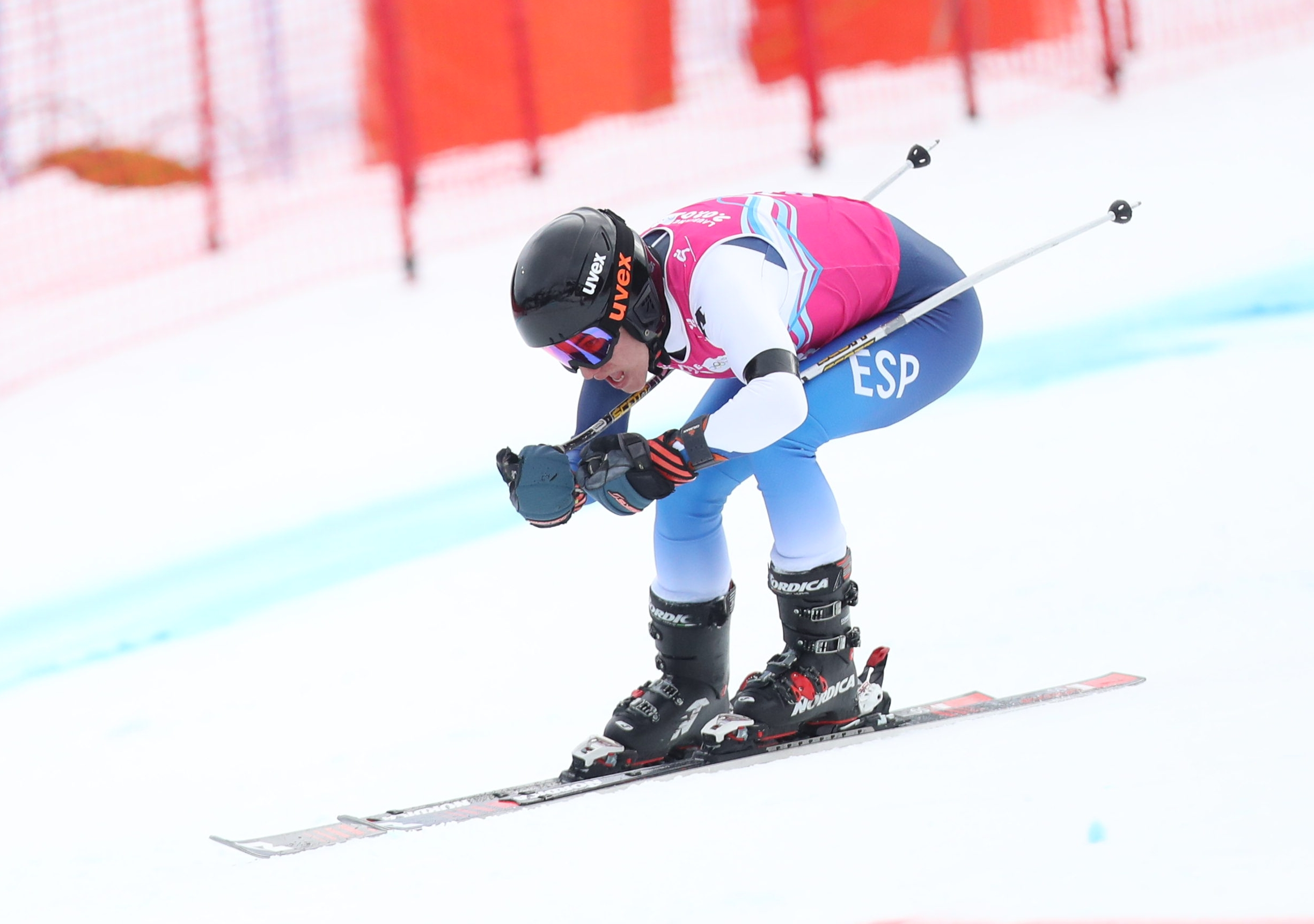 Men's Super G at the 2020 Winter Youth Olympics in Lausanne